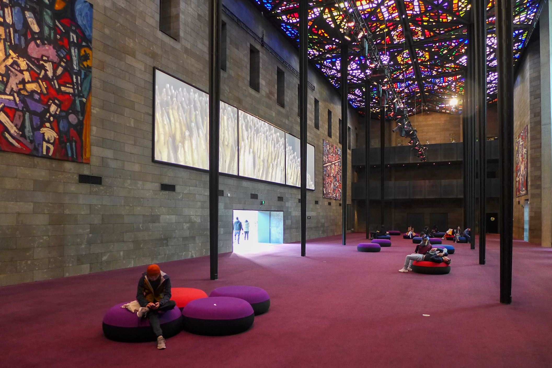 National Gallery of Victoria Great Hall